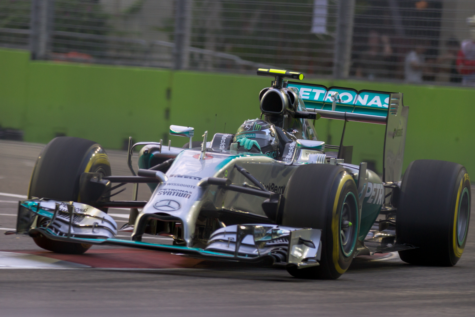 Formula One 2014 Rd.14 Singapore GP: Nico Rosberg (Mercedes GP)